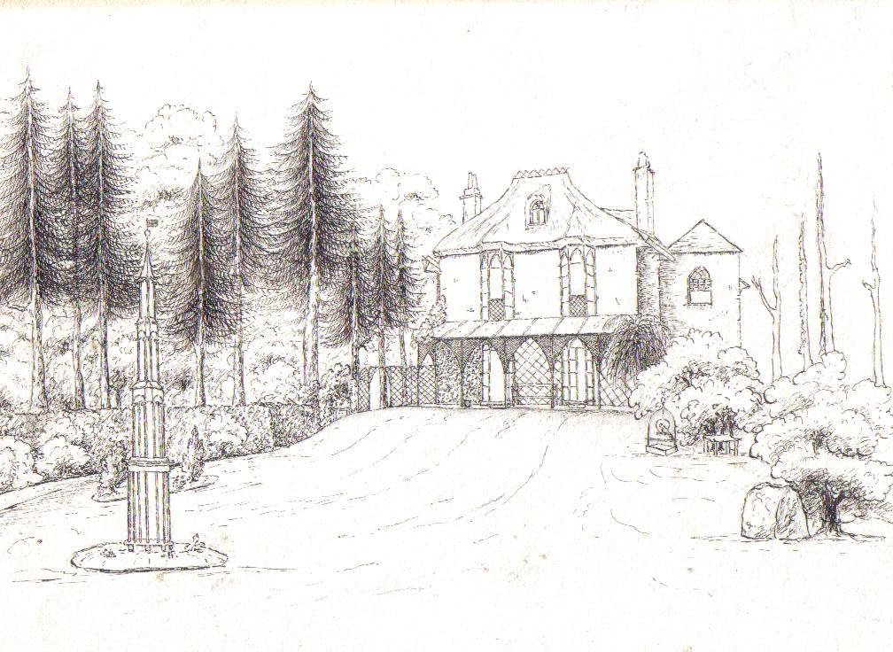 A drawing of Woodway House done in around 1825 when Captain Spratt was living here.